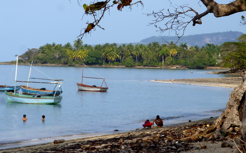 Playa Manglito on the road to Yumuri in Baracoa, Guantánamo Province.